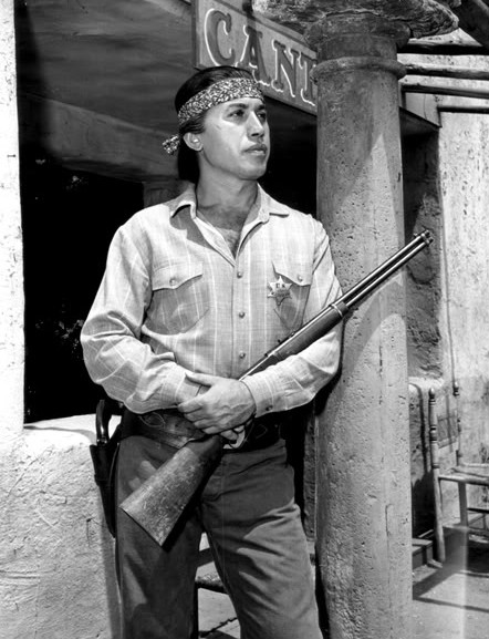 Photo of Michael Ansara from the television program Law of the Plainsman.